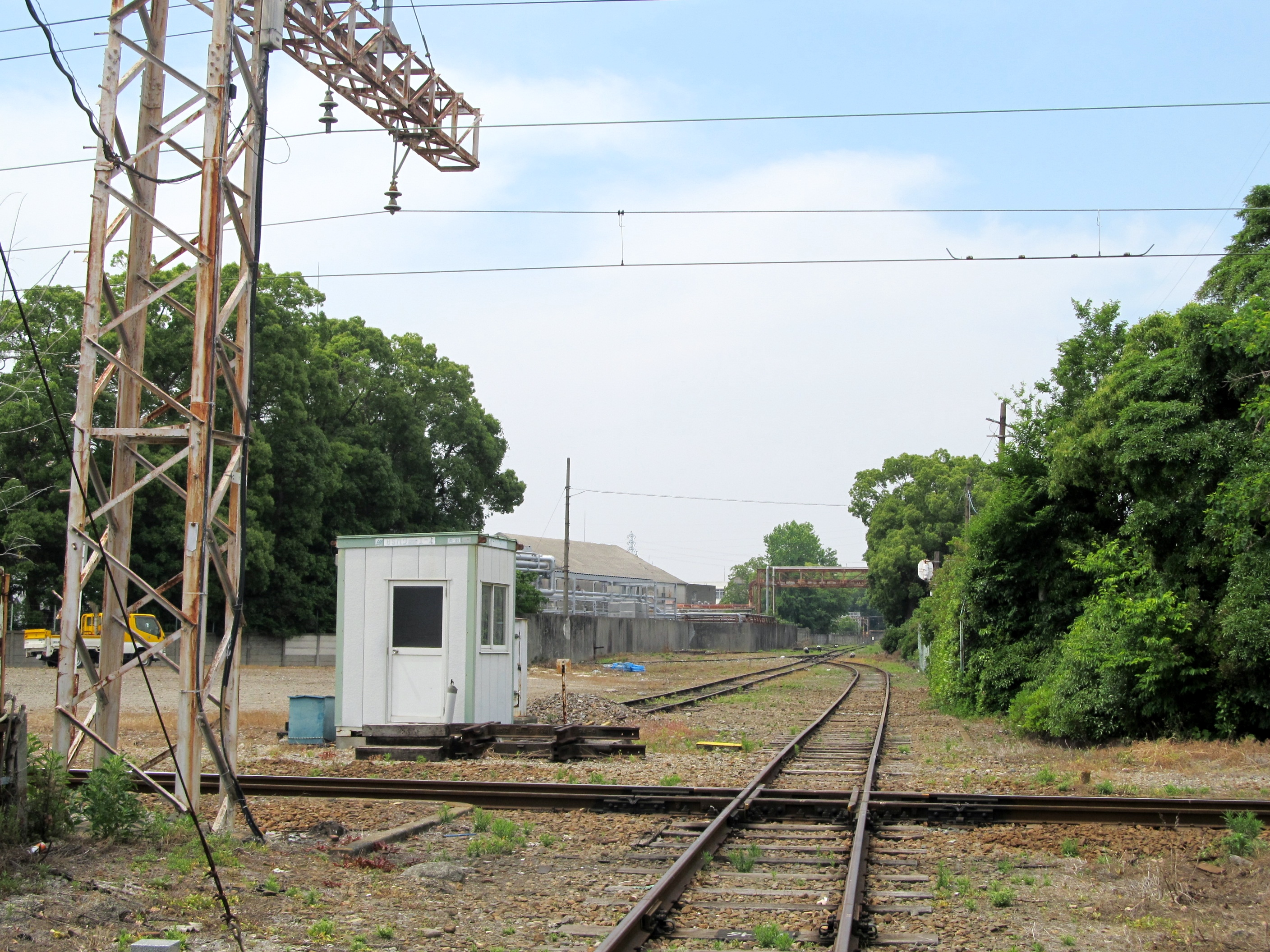 Nagoya Rinkai Railway Tōchiku Line Meiden Chikkō Freight Station and Nagoya Railroad Chikkō Line Meiden Chikkō Signal Box